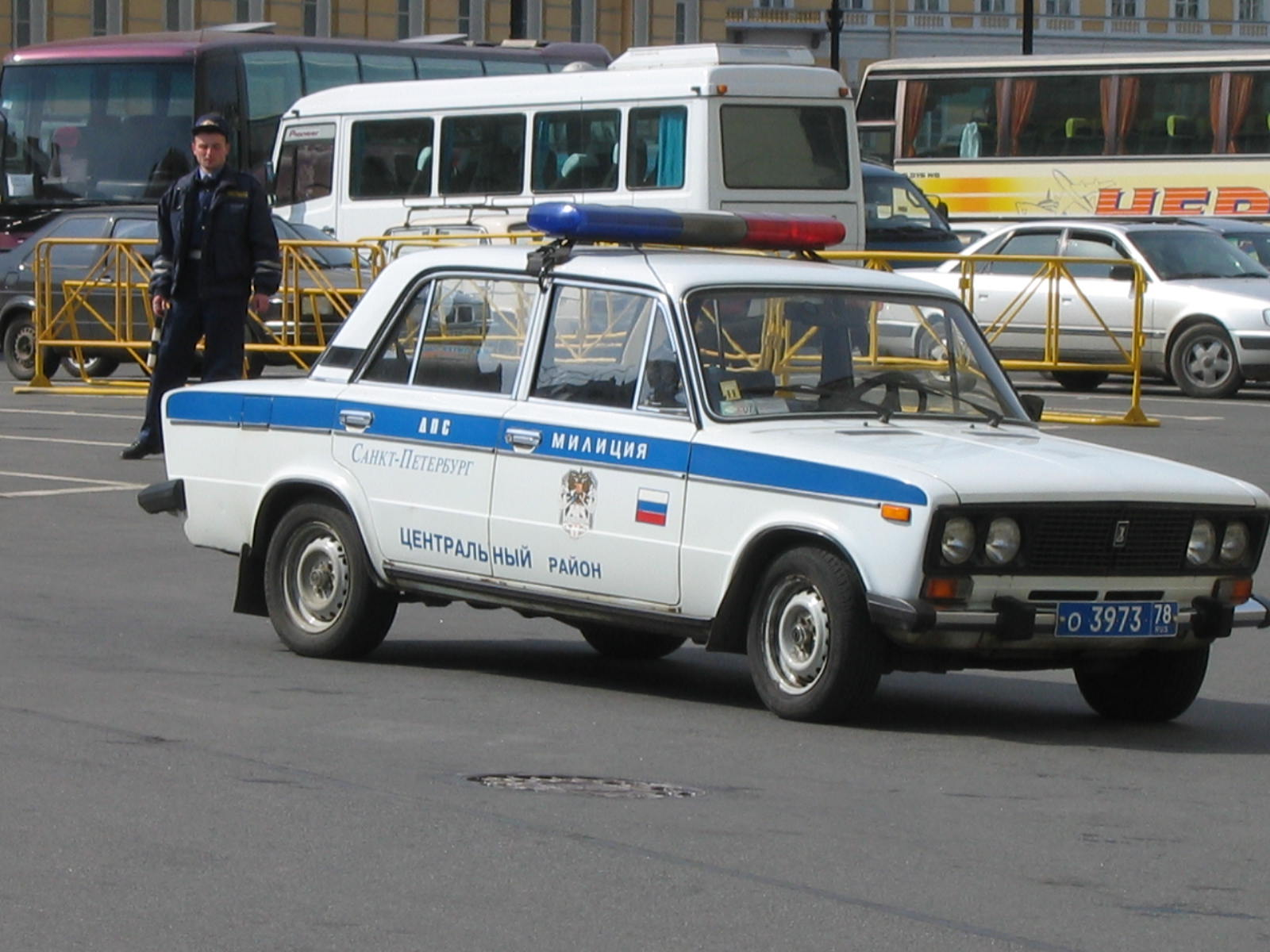 Police car (Lada 2106) in Saint Petersburg, Russia.